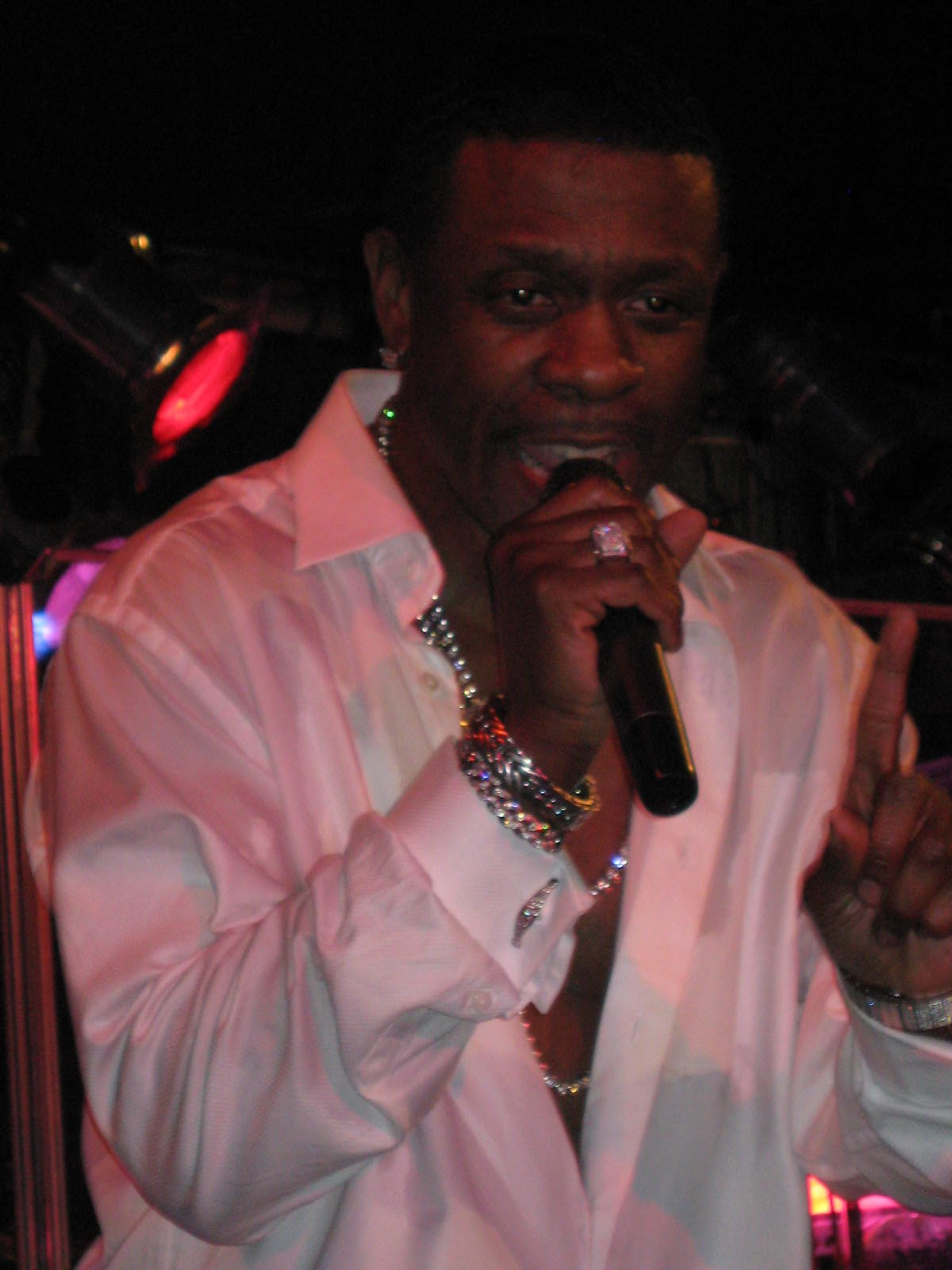 American singer Keith Sweat